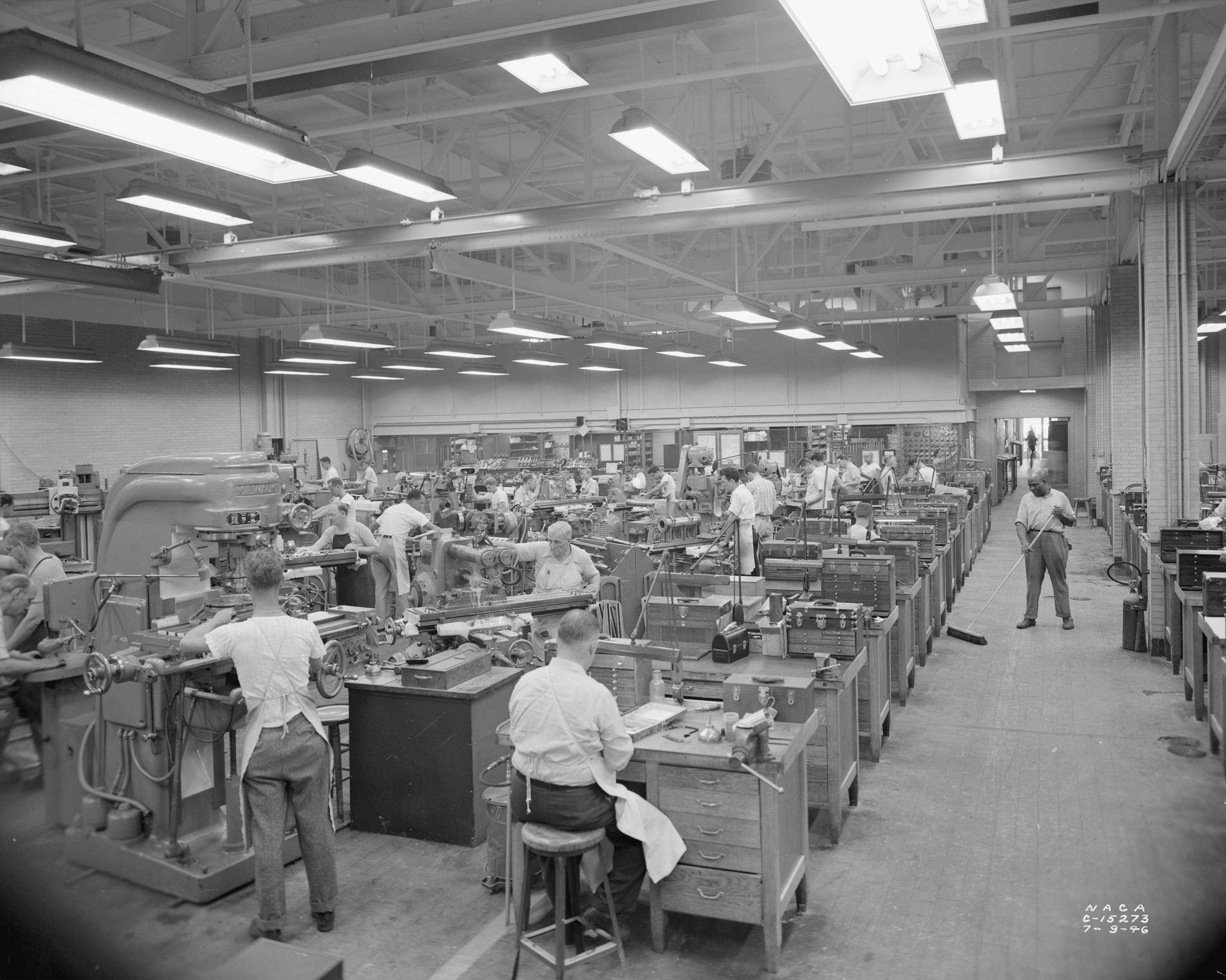 Skilled machinists and toolmakers use precision machinery to make experimental engine parts at the Aircraft Engine Research Laboratory of the National Advisory Committee for Aeronautics, Cleveland, Ohio in 1946. The facility is now known as John H. Glenn Research Center at Lewis Field.